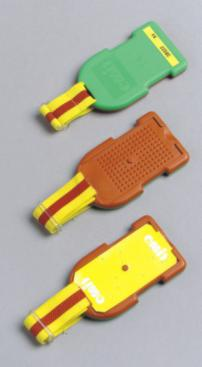 emit